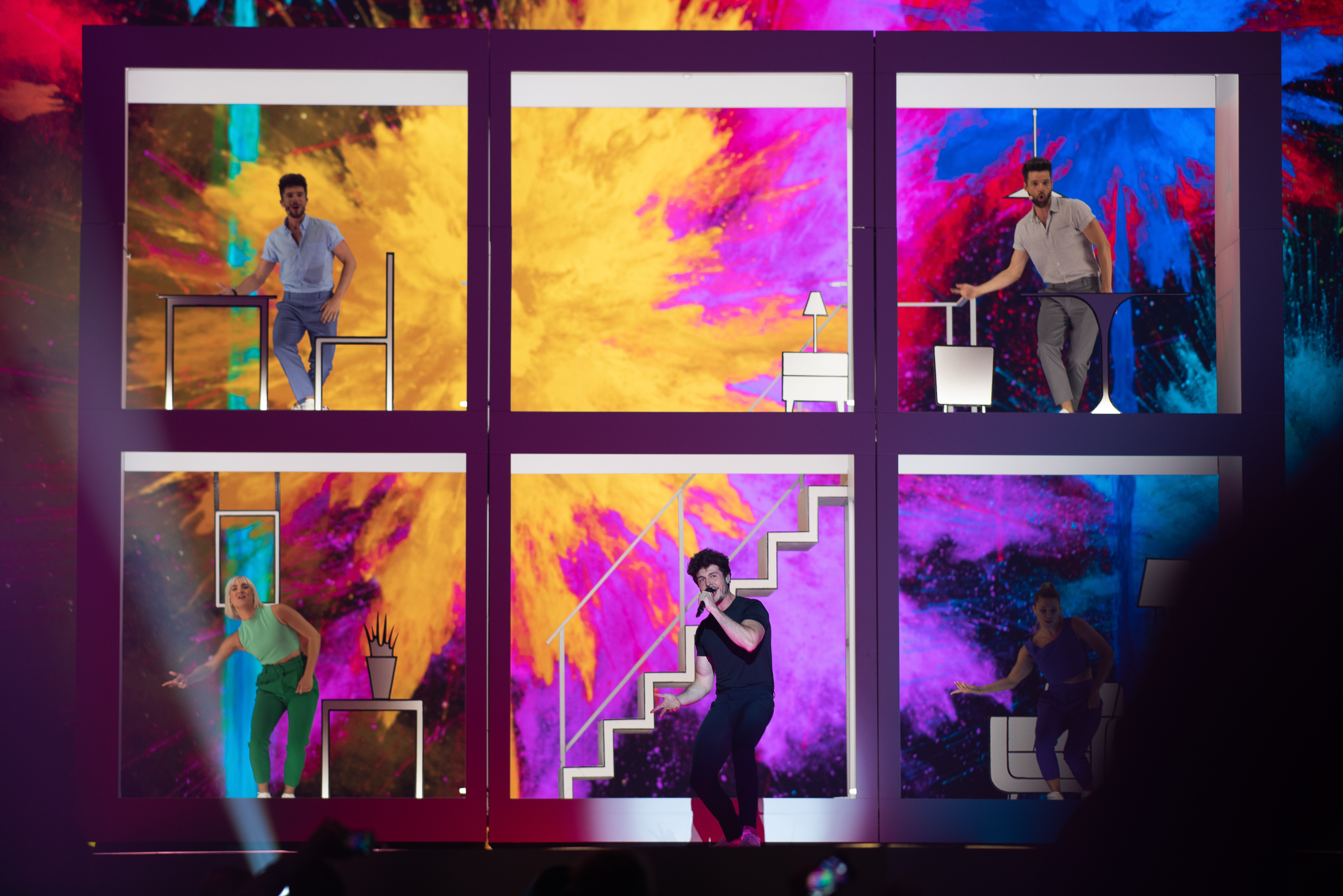 At the 2019 Eurovision Song Contest Grand Final Dress Rehearsal